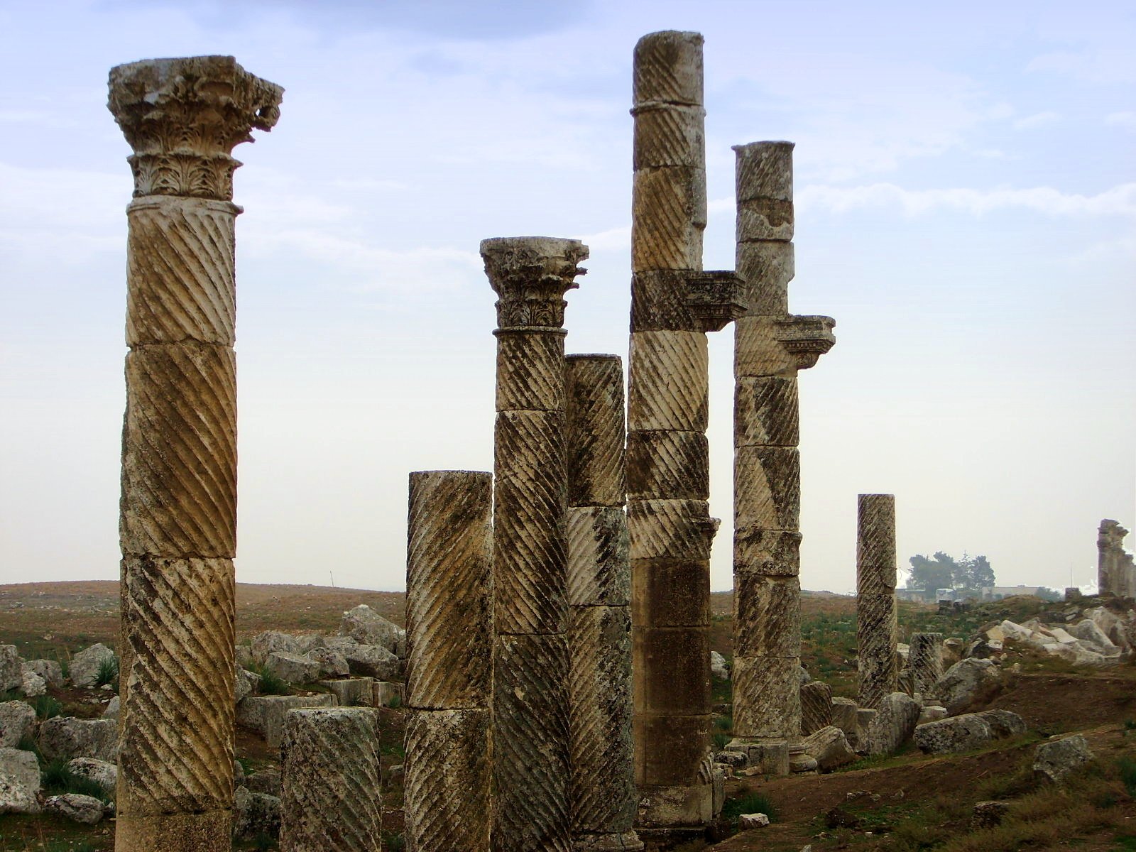 Apamea